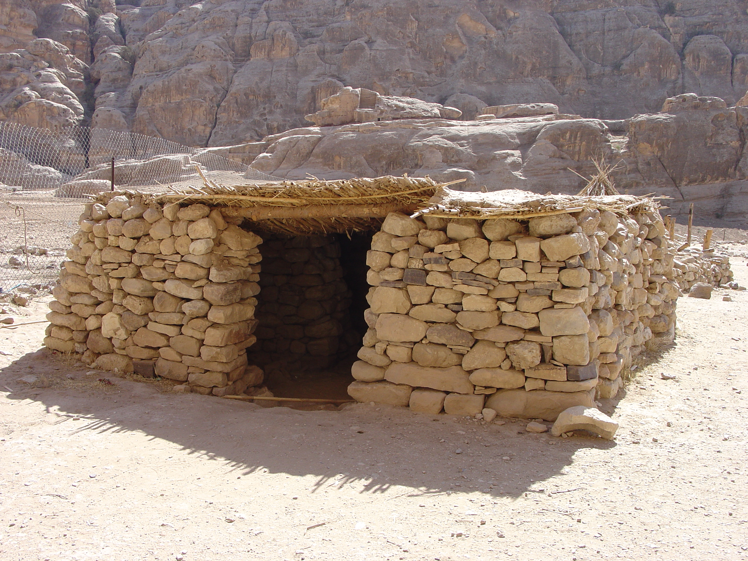 Reconstructed Neolithic house. Beidha, Jordan